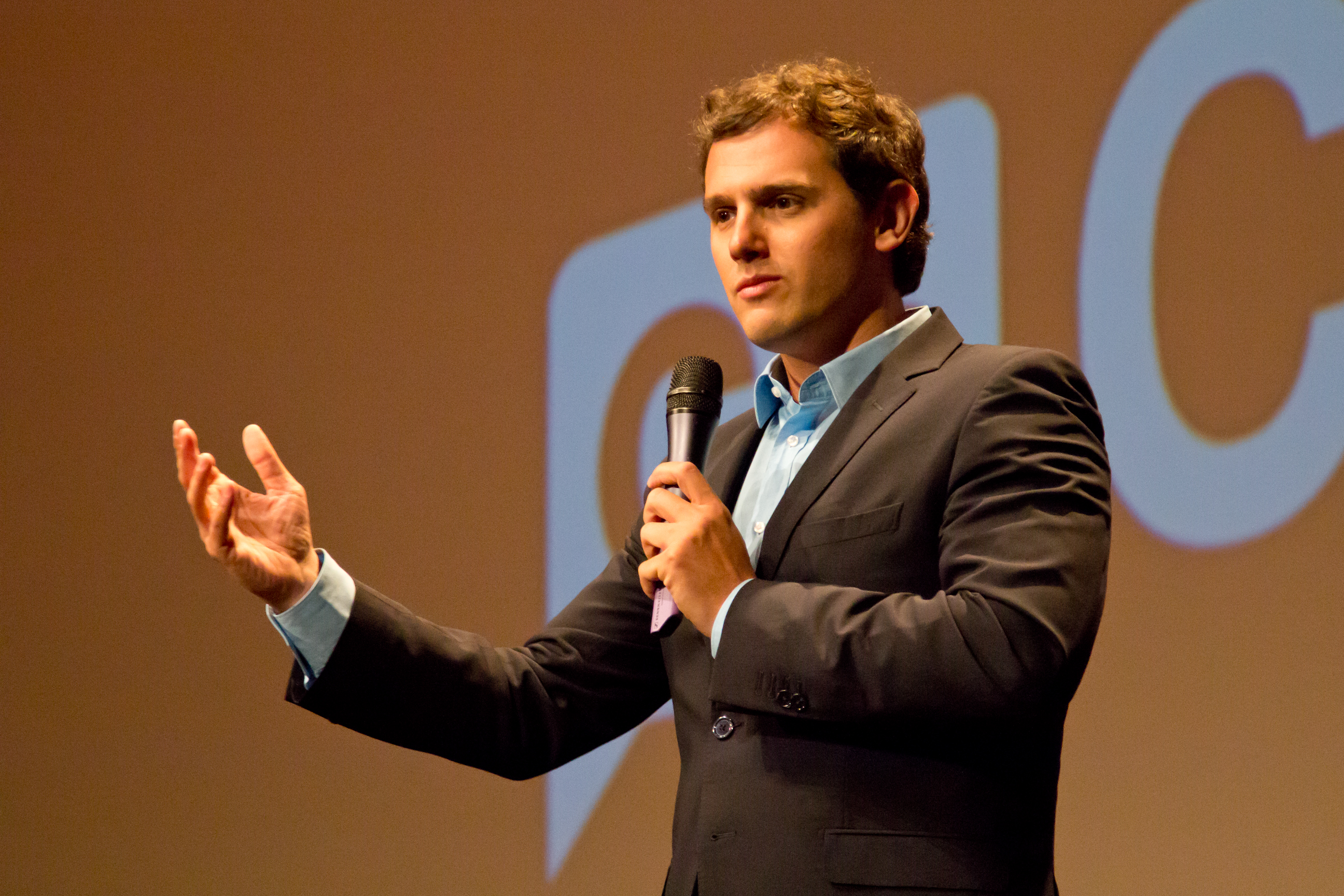 Spanish politician Albert Rivera at an event as president of Ciudadanos.